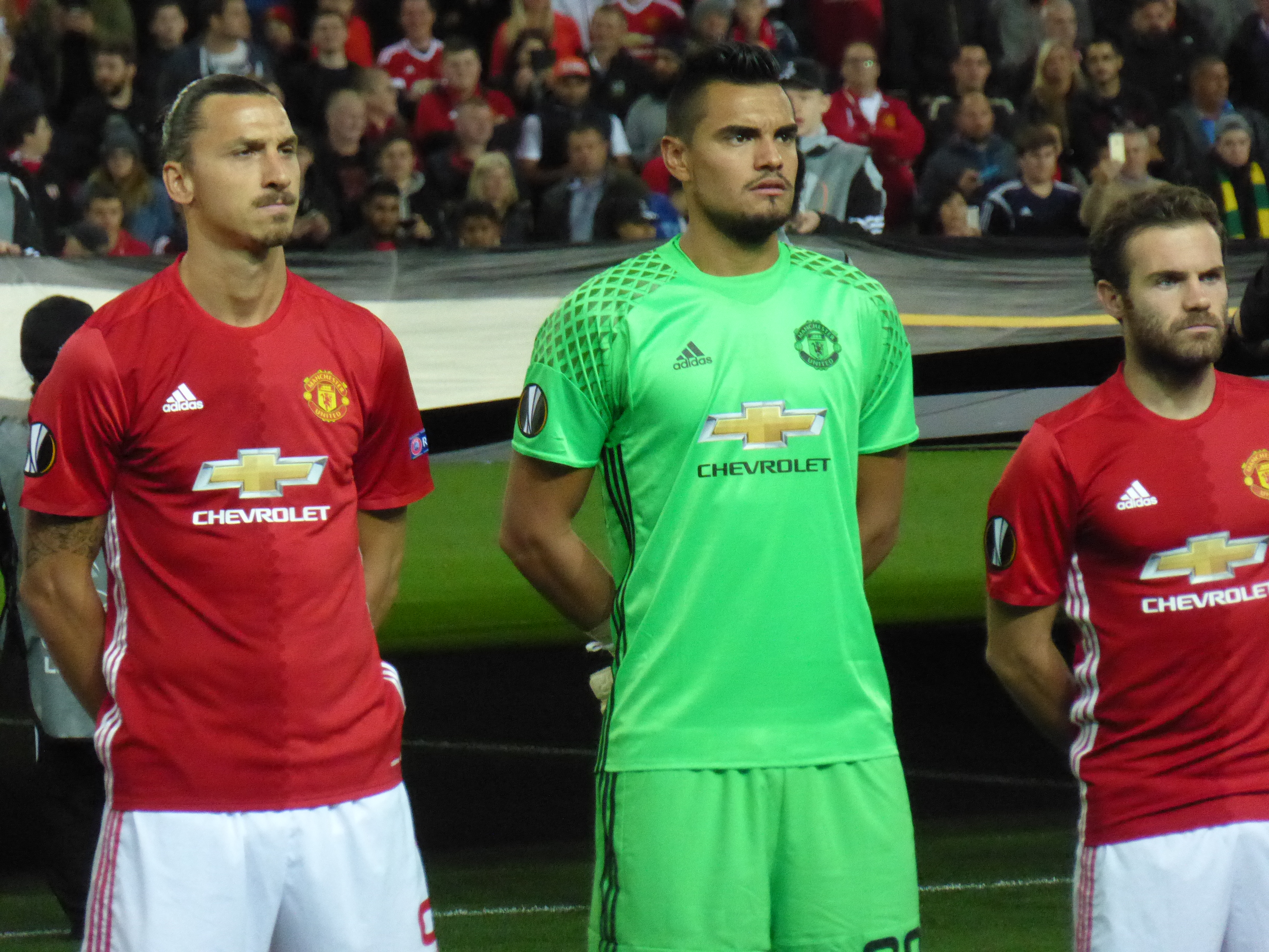 Manchester United v Zorya Luhansk (1-0), Europa League, Old Trafford, Manchester, Greater Manchester, England, September 2016.